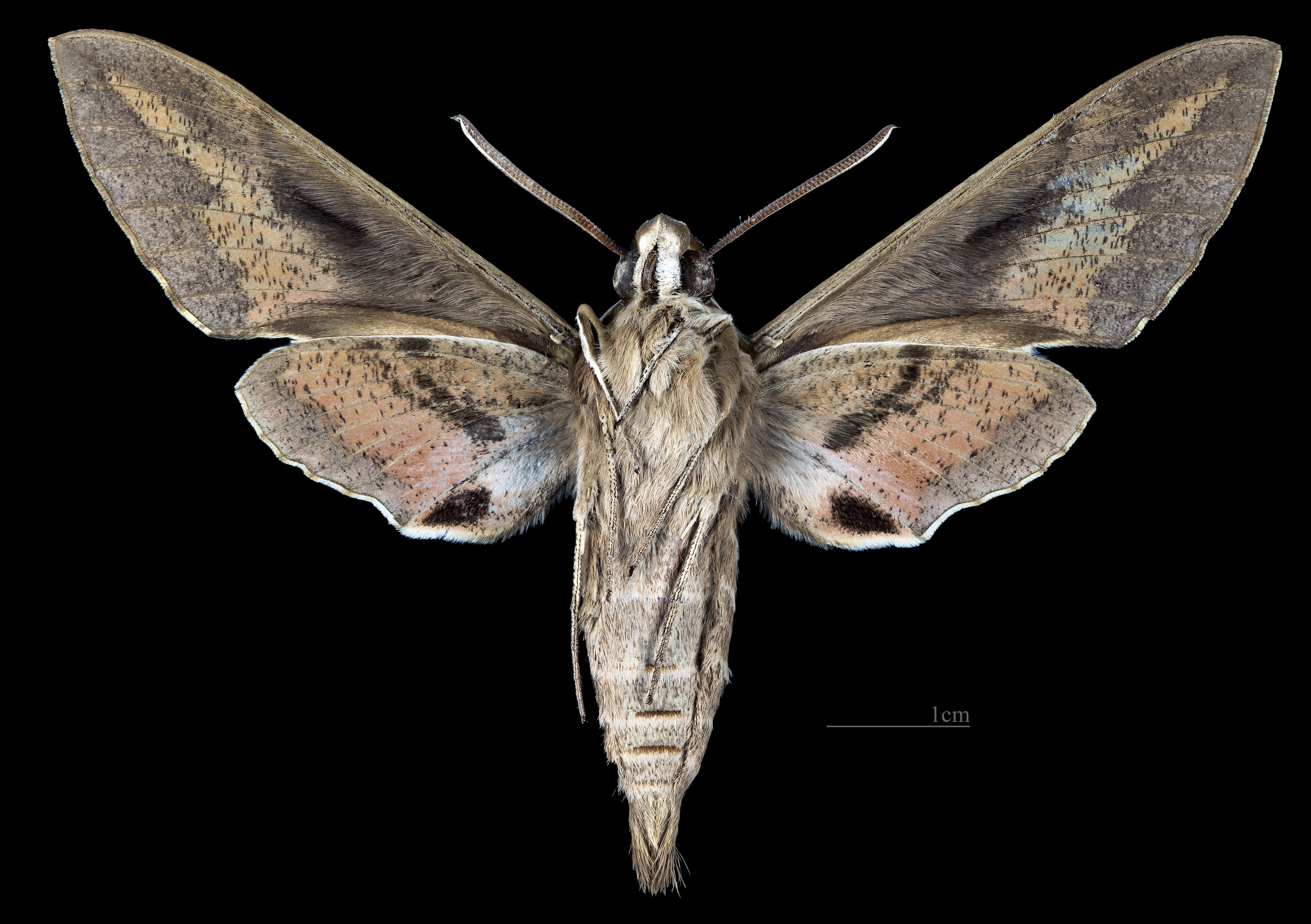 Hyles annei - △ Ventral side Collection of the Mathematician Laurent Schwartz